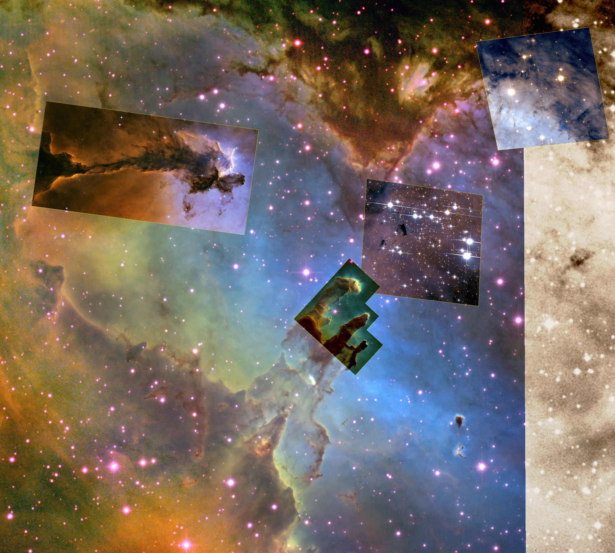 Four Hubble Space Telescope's images of Eagle Nebula